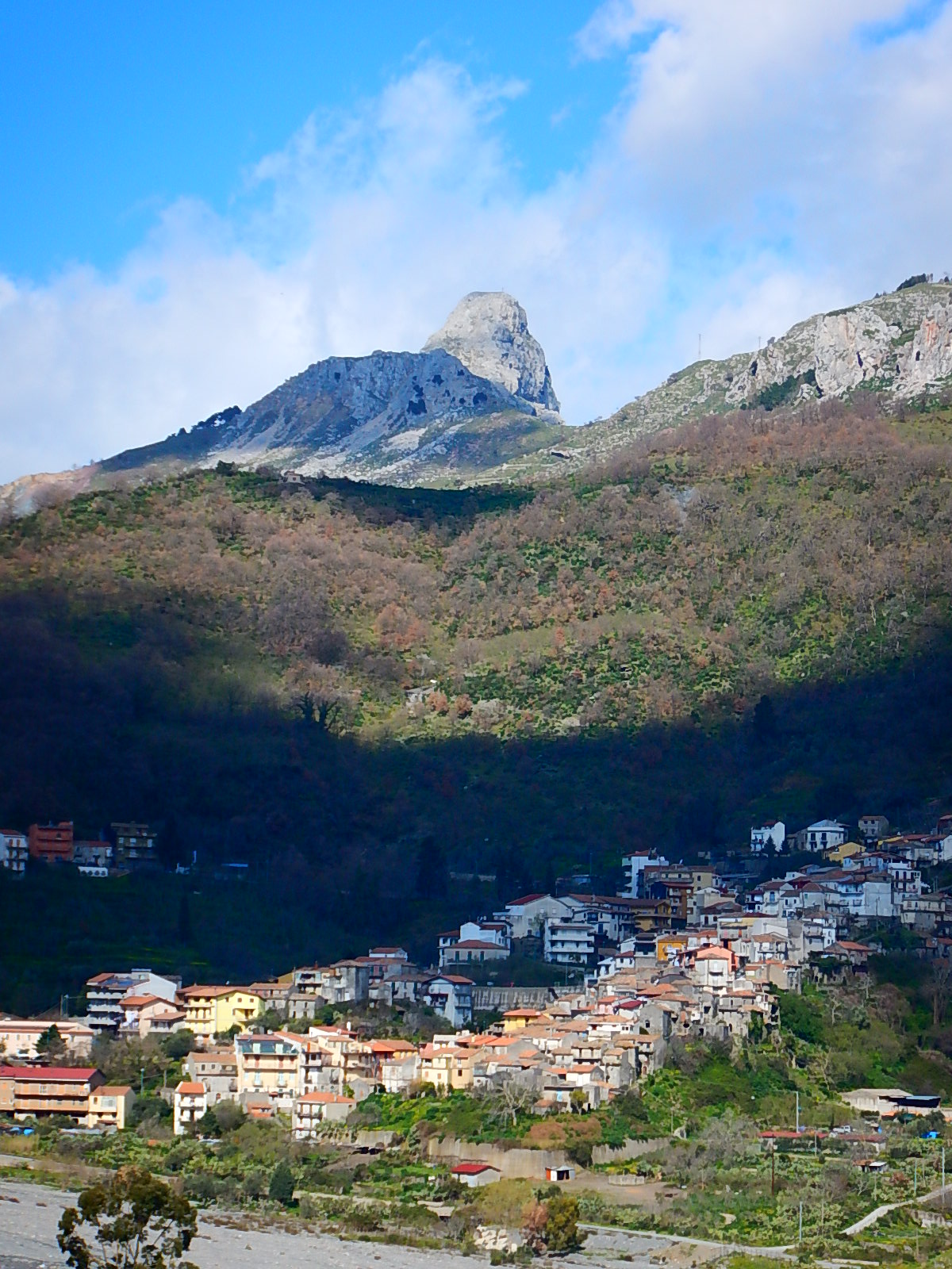 rocca salvatesta, Peloritani, Sicily